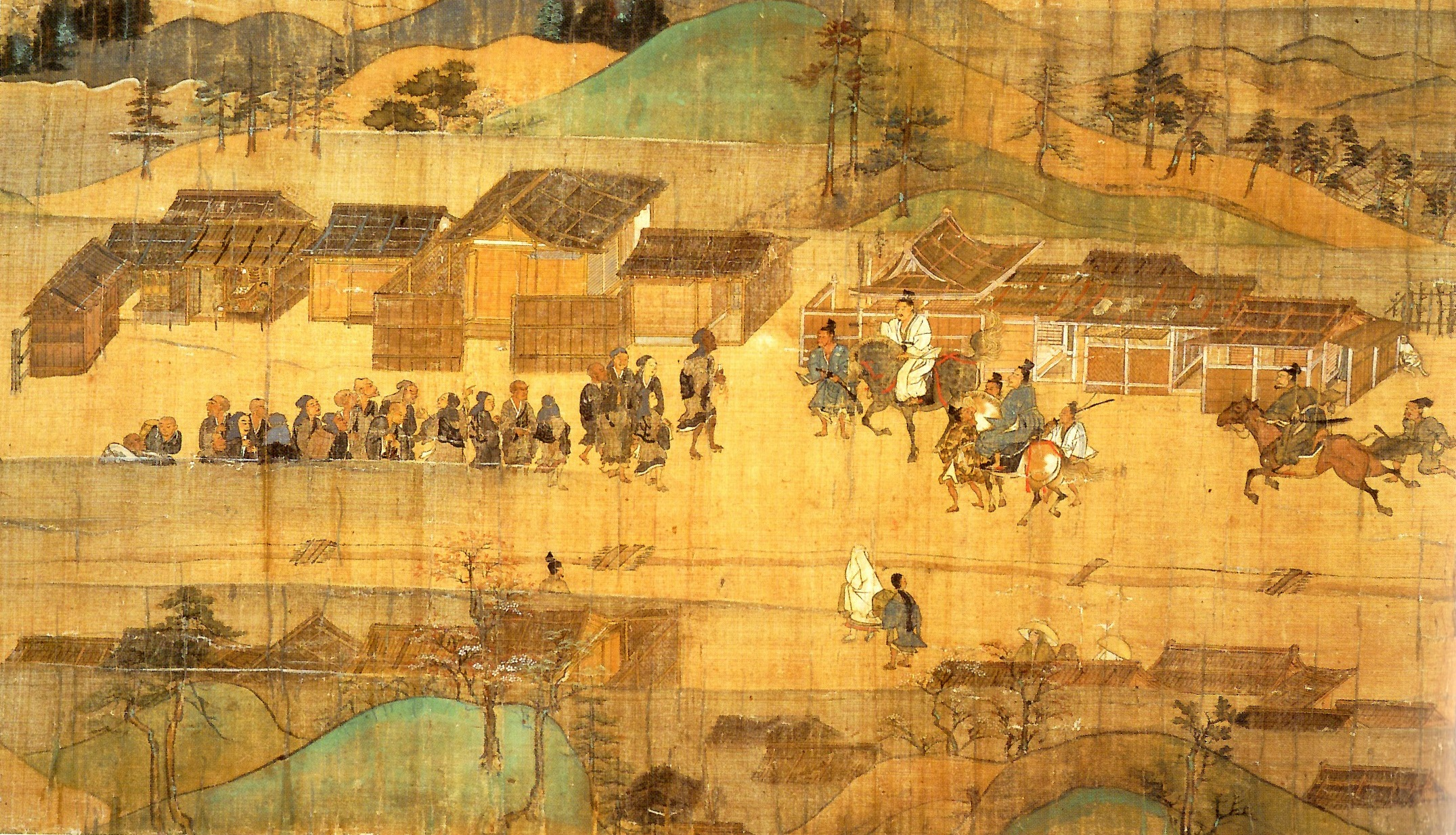 Ippen Shōnin Engi-e